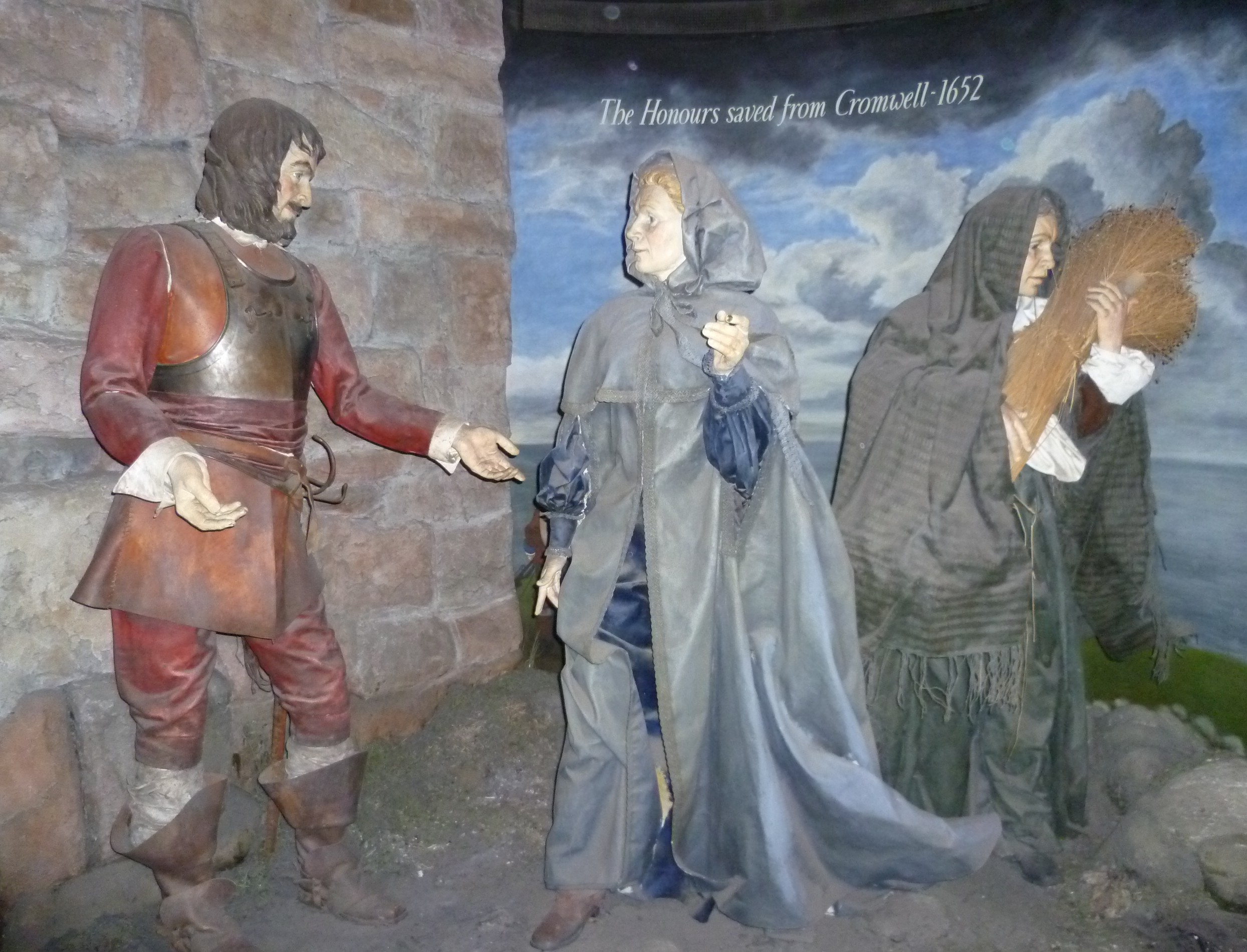 Tableau depicting an episode in the history of Scotland's symbols of kingship, known as the 'Honours' of Scotland. In 1651, during Cromwell's occupation of Scotland after his victory at Dunbar in 1650, the regalia were quietly removed from the Castle to be used for the coronation at Scone of Charles II as King of Scots. From there they were taken for safekeeping to Dunnottar Castle, south of Aberdeen, smuggled out during a siege of that castle in 1652 and buried under the floor of a local church at Kinneff until the Restoration in 1660. The account of Christian Fletcher, wife of Mr. Granger, the minister of Kinneff, reveals how easily they might have been lost for all time, "...whereupon I went to Dunnottar, five miles distant from my house, and after a little conference with the said Elizabeth Douglas [the Governor's wife], she showed me the Honours, desiring me to take upon me the keeping of them, and to carry them along with me, which I by the Lord's assistance did willingly undertake, whereupon she delivered unto me the Crown and Sceptre*, which I brought with me on horseback, riding always near the sea along the tops of the high craigs, resolving rather to lose my life and throw them in the sea than that they should have taken them from me, being at that time in fear of the enemy always." [* the Sword blade and hilt came out in a sack of flax carried by her servant]